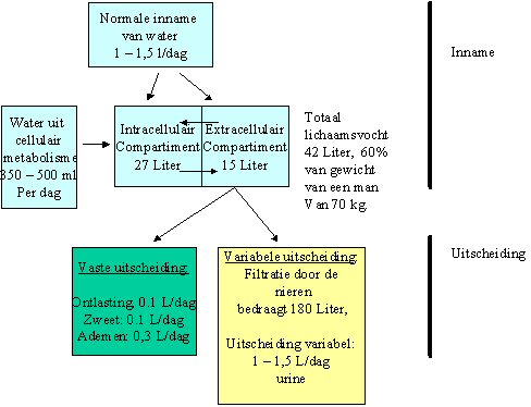 Diagram of the water balance in the Human body.